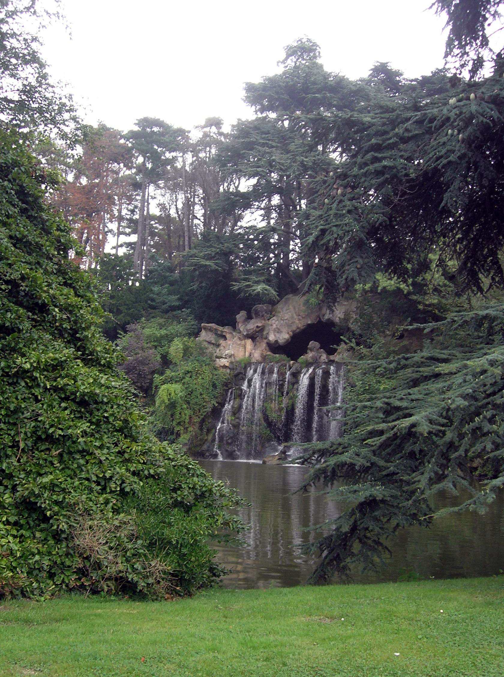 Description =Grande cascade au bois de Boulogne Source =Photo taken by Remi Jouan Date =Septembre 2006 Author =Remi Jouan